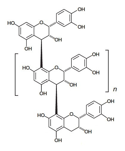 proanthocyanidina